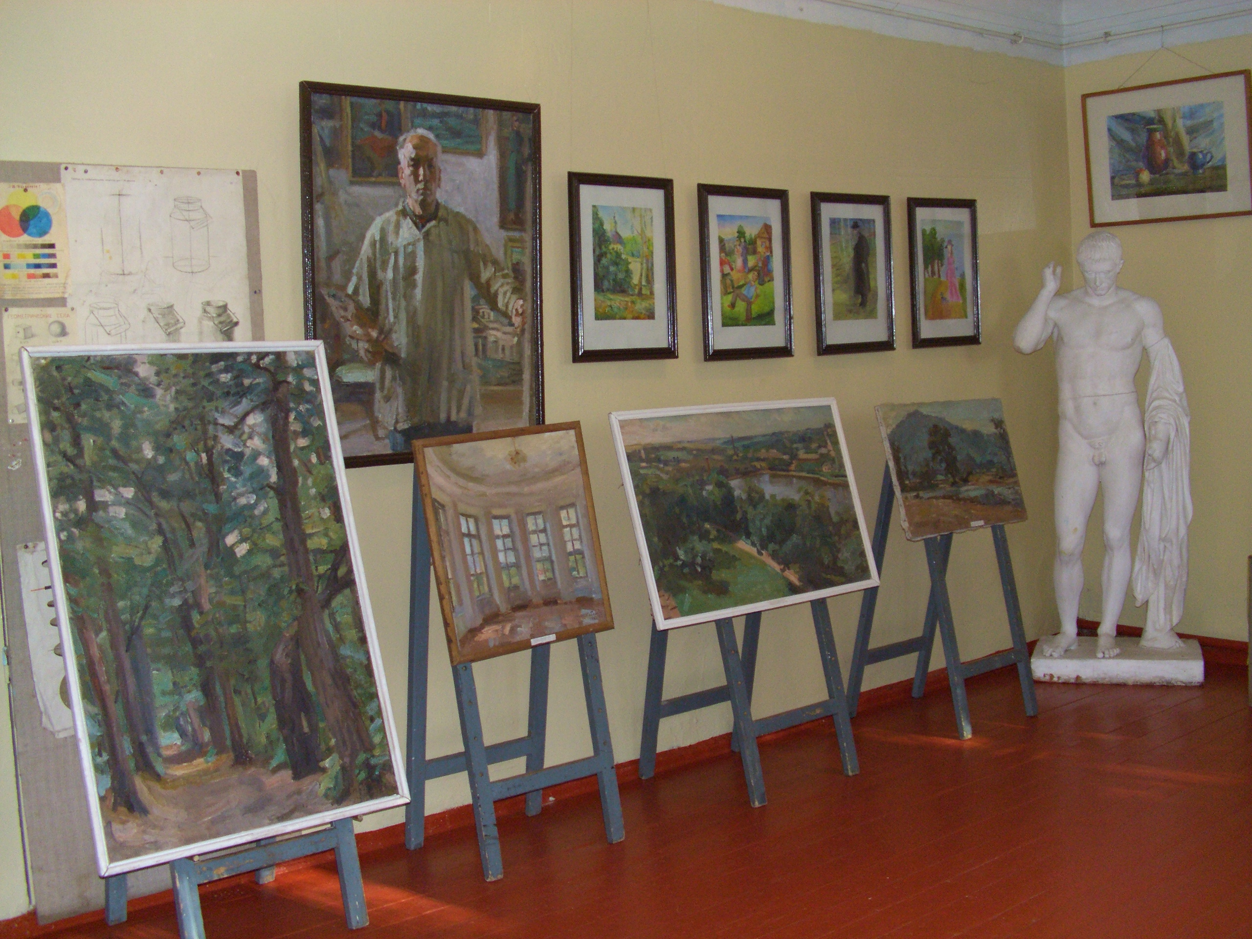 Класс Богородицкой художественной школы